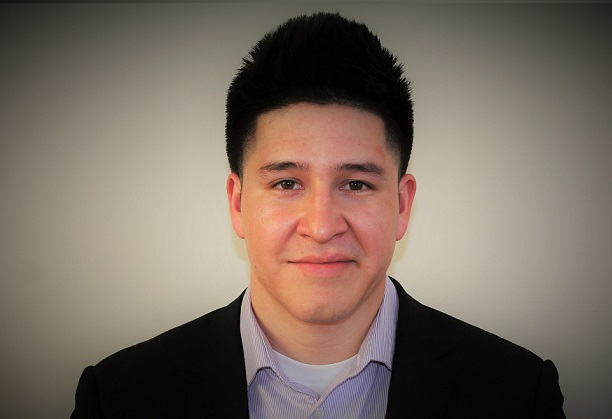 2016 Udall Health Care Award Recipient